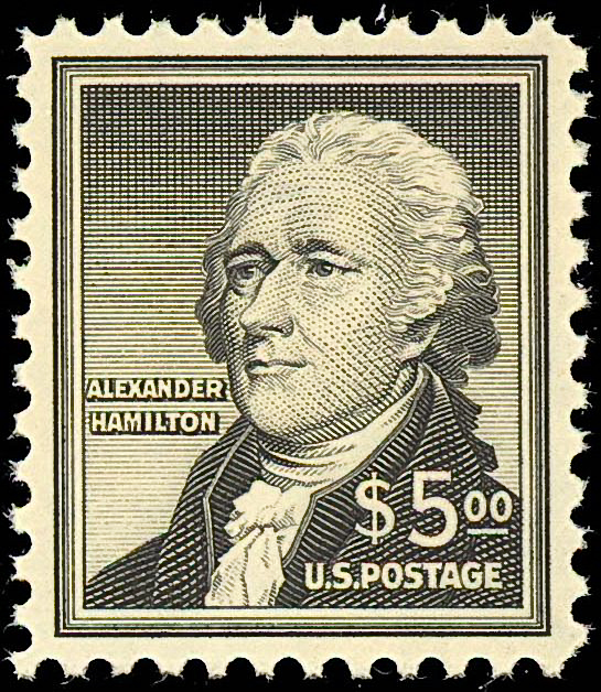 US Postage stamp: Alexander Hamilton, issue of 1956, $5, black